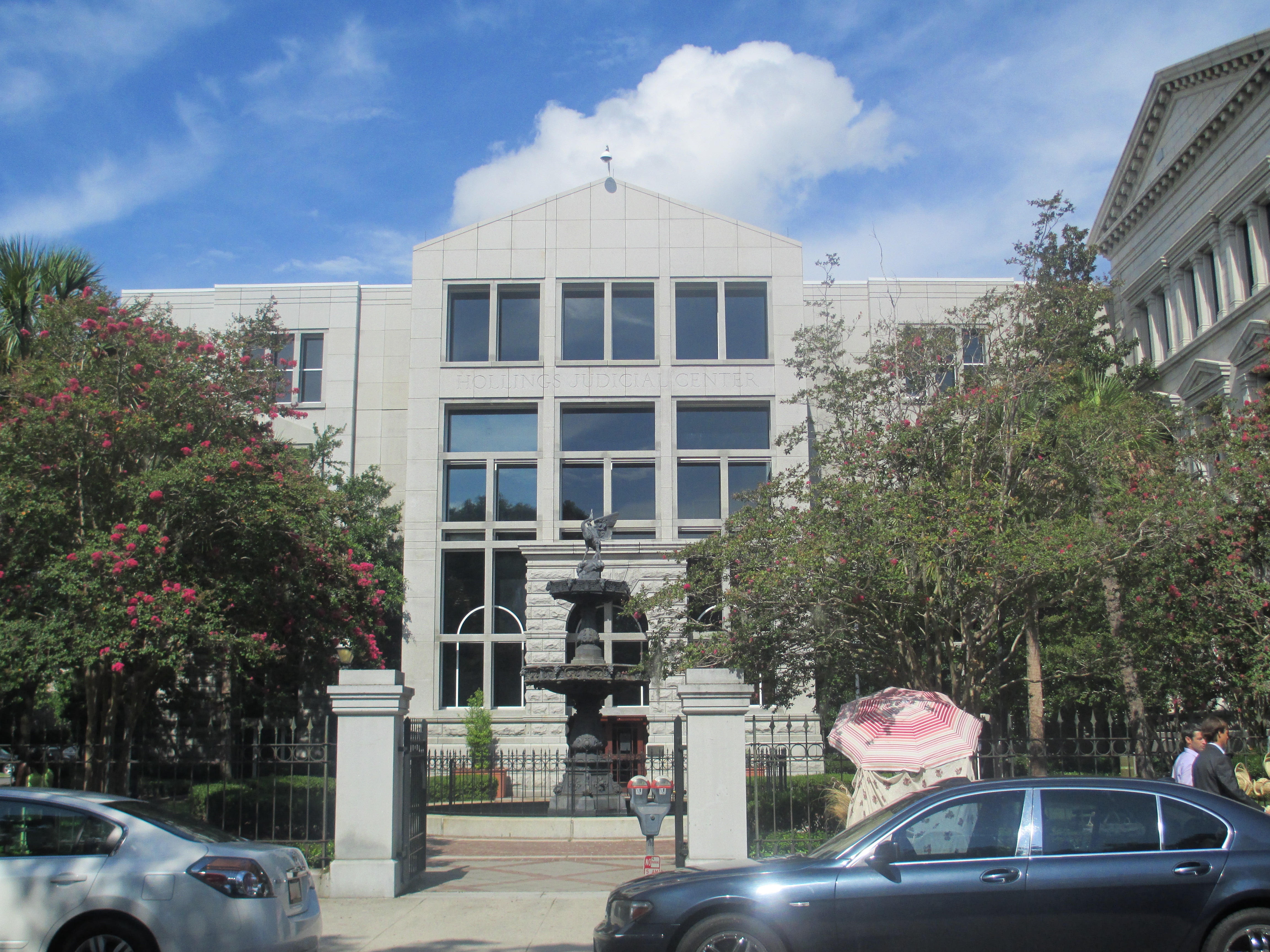 I took photo with Canon camera of Hollings Judicial Center in Charleston, SC.